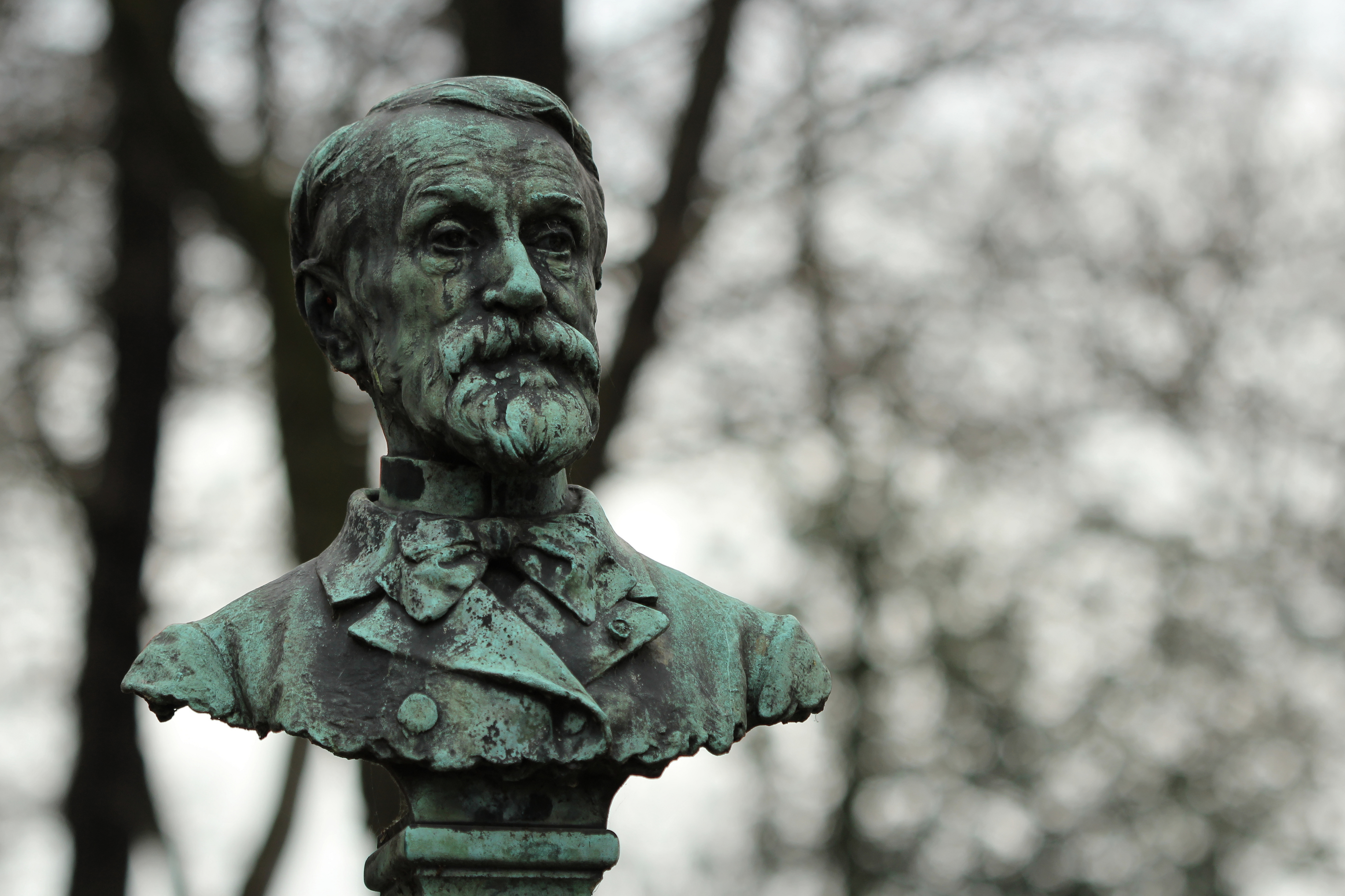 Tomb of Pierre-Jules Cavelier (sculptor 1814-1894), Pere Lachaise (Division 8). Bust by Léon Fagel (1851-1913).